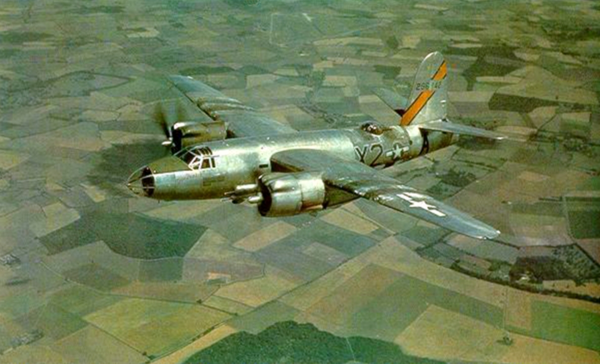 A U.S. Army Air Forces Martin B-26B-55-MA Marauder (s/n 42-96142). The aircraft was assigned to the 596th Bomb Squadron, 397th Bomb Group,98th Bomb Wing, 9th Bomber Command, 9th Air Force in Europe. "X2-A" was named "Dee Feater" and carries numerous mission markers, and D-Day invasion stripes. The 397th BG was stationed starting 15 April 1944 at Rivenhall, Essex (UK), and moved to Hurn, Hampshire, on 4 August 1944. On 30th August 1944 the Group was relocated to France.